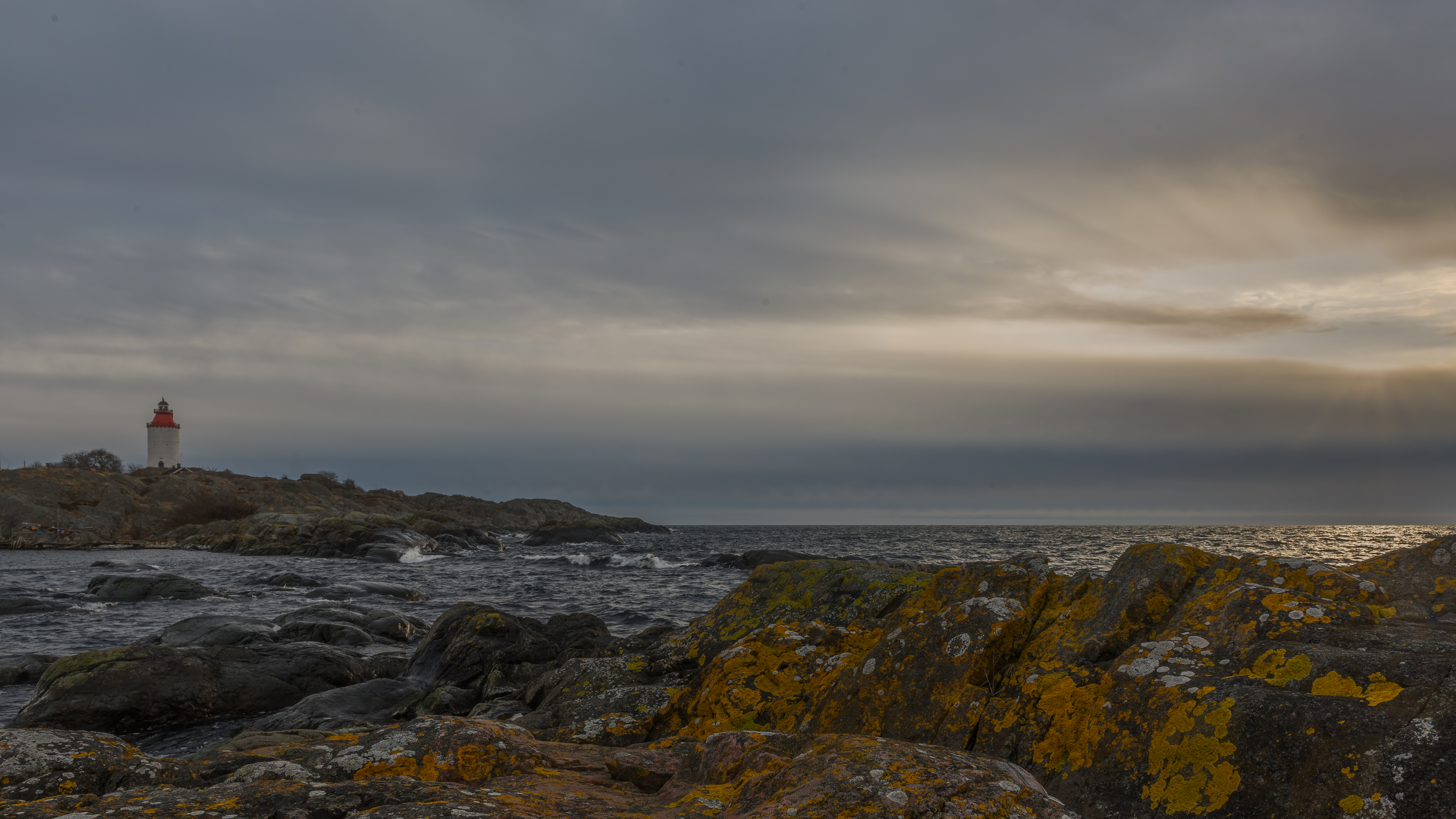 Landscape at Öja island in Stockholm archipelago with Landsort Lighthouse.